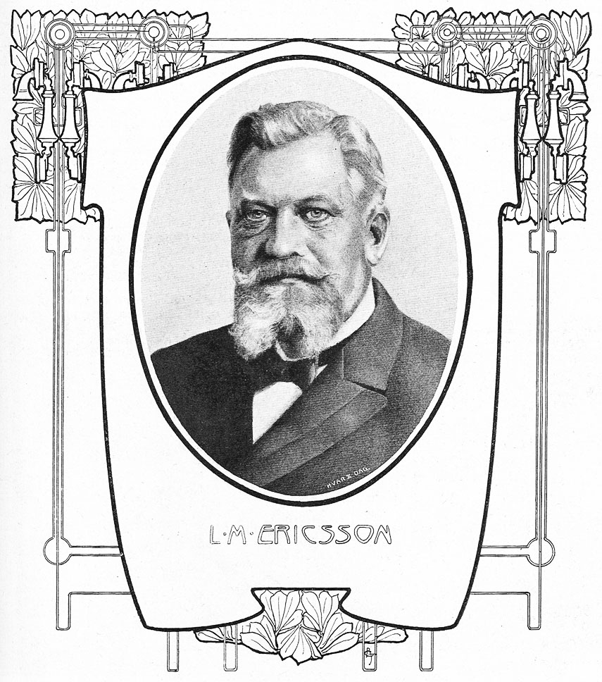 Swedish inventor Lars Magnus Ericsson (1846-1926). Picture taken from the frontpage of Hvar 8 dag #34 1906.